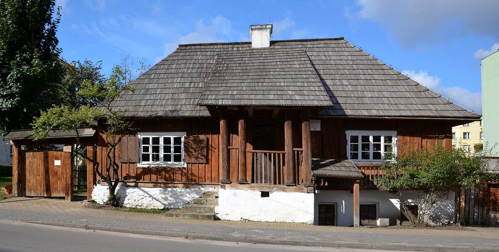 "Zagroda Sitarska" open-air museum in Biłgoraj, Poland.